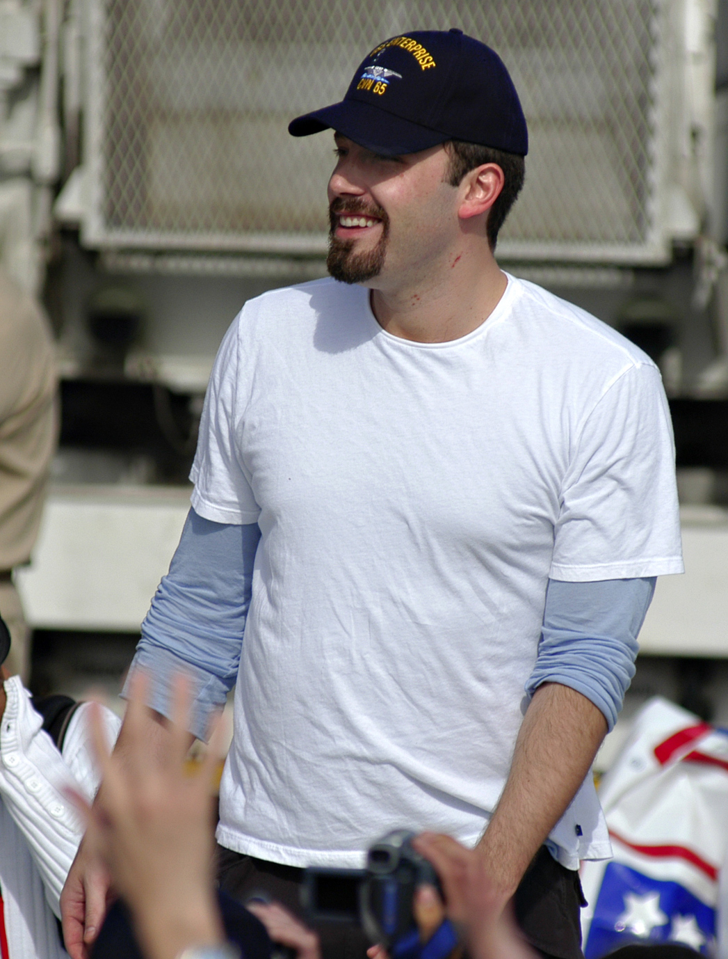 031222-N-9742R-005 Manama, Bahrain (Dec. 22, 2003) -- Academy awarding winning Actor Ben Affleck greets Sailors and Marines on the flight deck aboard the nuclear-powered aircraft carrier USS Enterprise (CVN 65). Mr. Affleck’s visit is part of a United Services Organization (USO) tour in the region. The Enterprise Carrier Strike Group (CSG) is currently deployed conducting missions in support of Operation Iraqi Freedom and the continued war on terrorism.